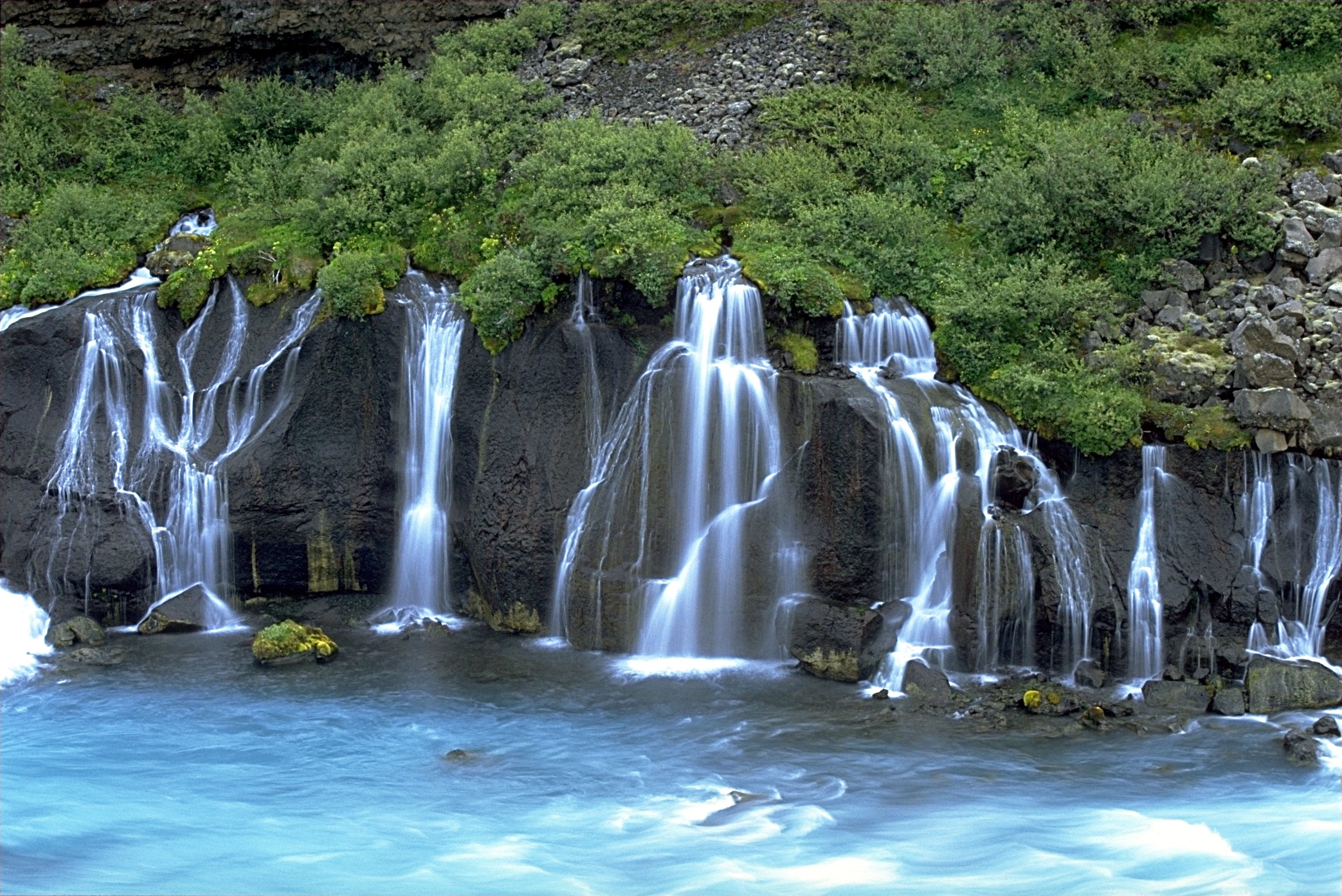 Hraunfossar (detail) Photo was taken using the following technique: Film: Fuji Velvia Lens: 4/70-210 Filter: none Body: Minolta 7 Support: Manfrotto 190B Image with Information in English Bild mit Informationen auf Deutsch